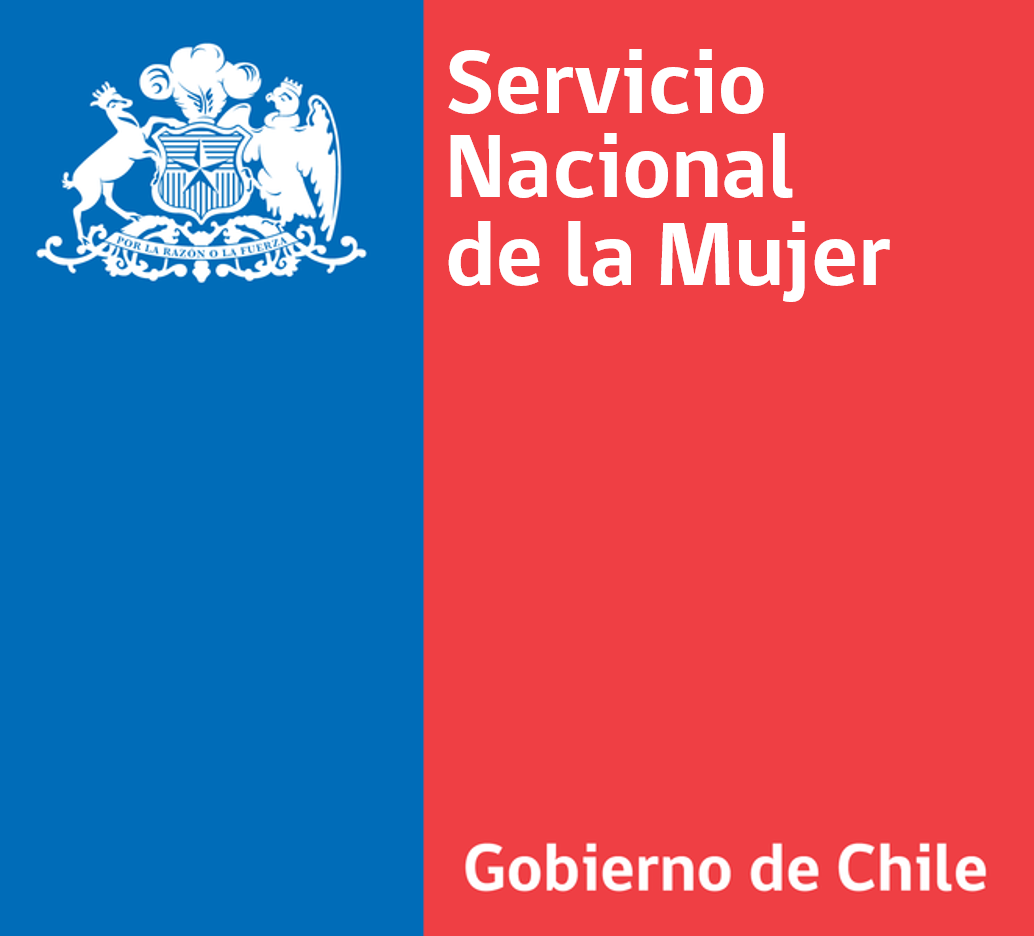 Institutional logo of the National Women's Service.